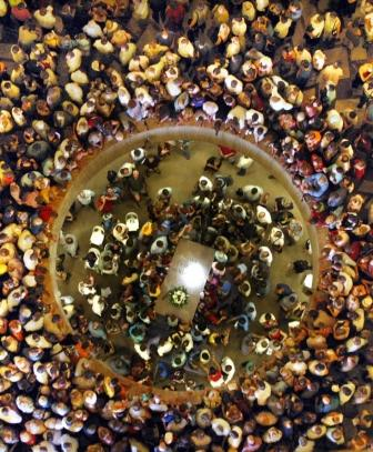 Ray of light on the cenotaph of the Voortrekker Monument on 16 December, the Day of the Vow. The cenotaph is symbolic of the grave of Piet Retief and his delegation.